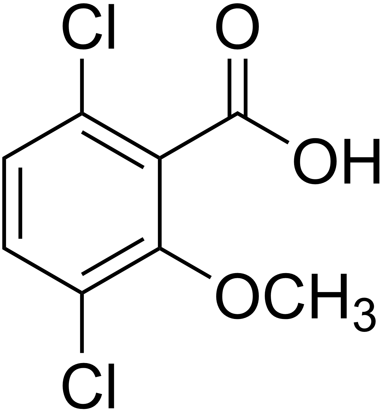 chemical structure of dicamba